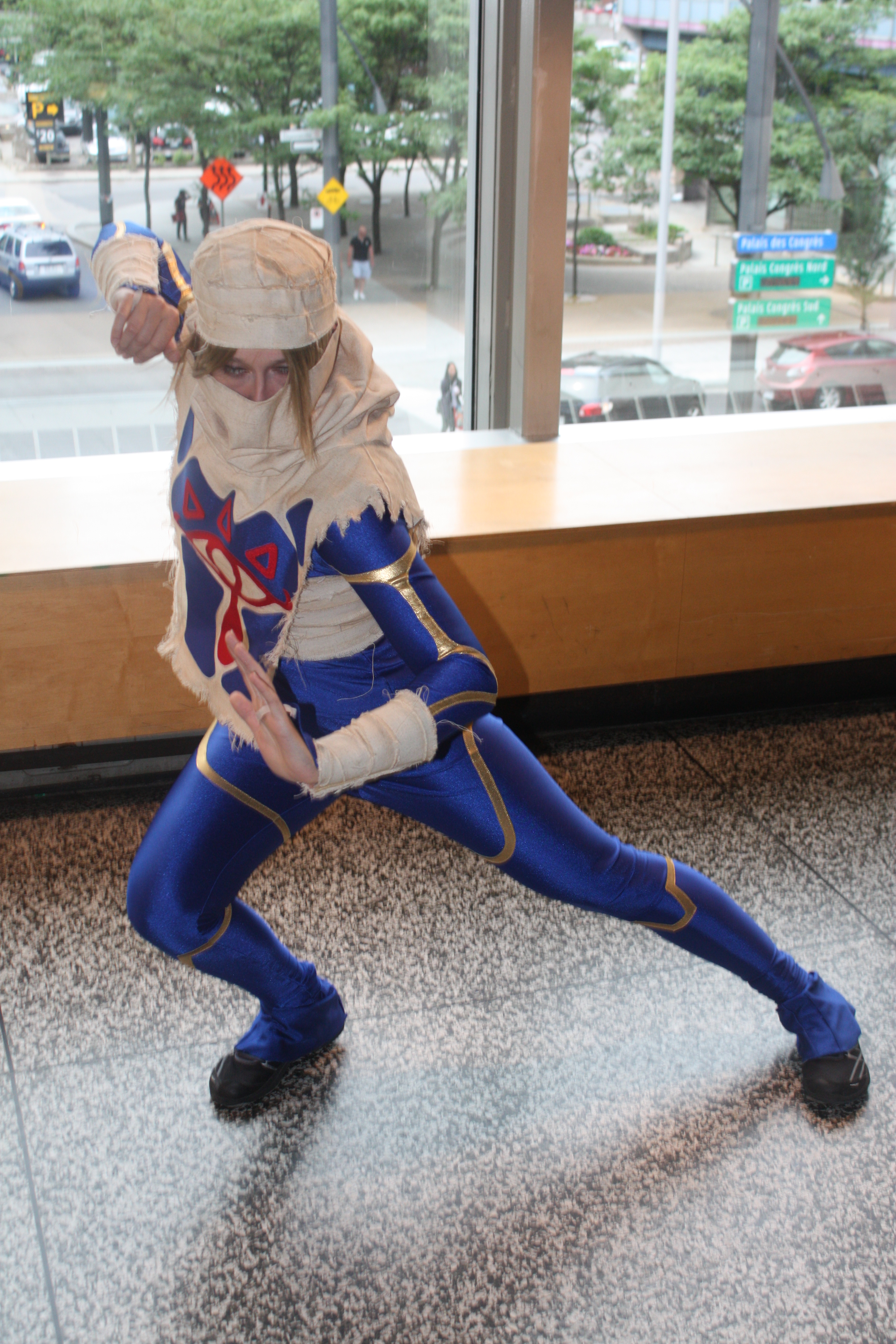 Cosplay one day two of Montreal Comiccon 2015.